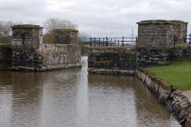 Former railway bridge at Toome See 347141. This is what remains of the bridge at Toome where the Cookstown line crossed the River Bann.